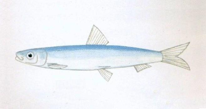 Spratelloides delicatulus. Tempera on paper